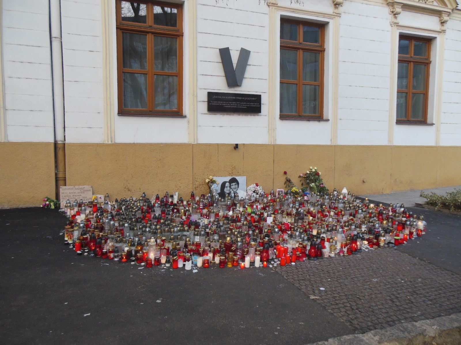 A memorial for Ján Kuciak and Martina Kušnírová on SNP Square in Bratislava, Slovakia.